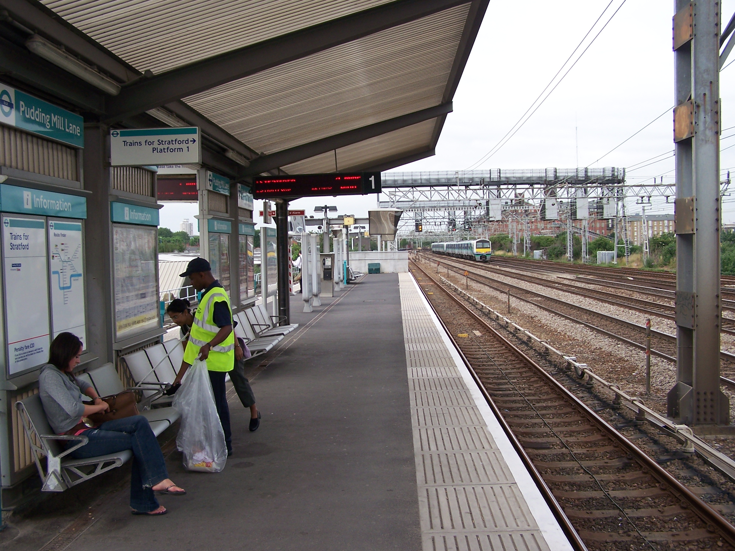 Pudding Mill Lane - DLR Station - Interior